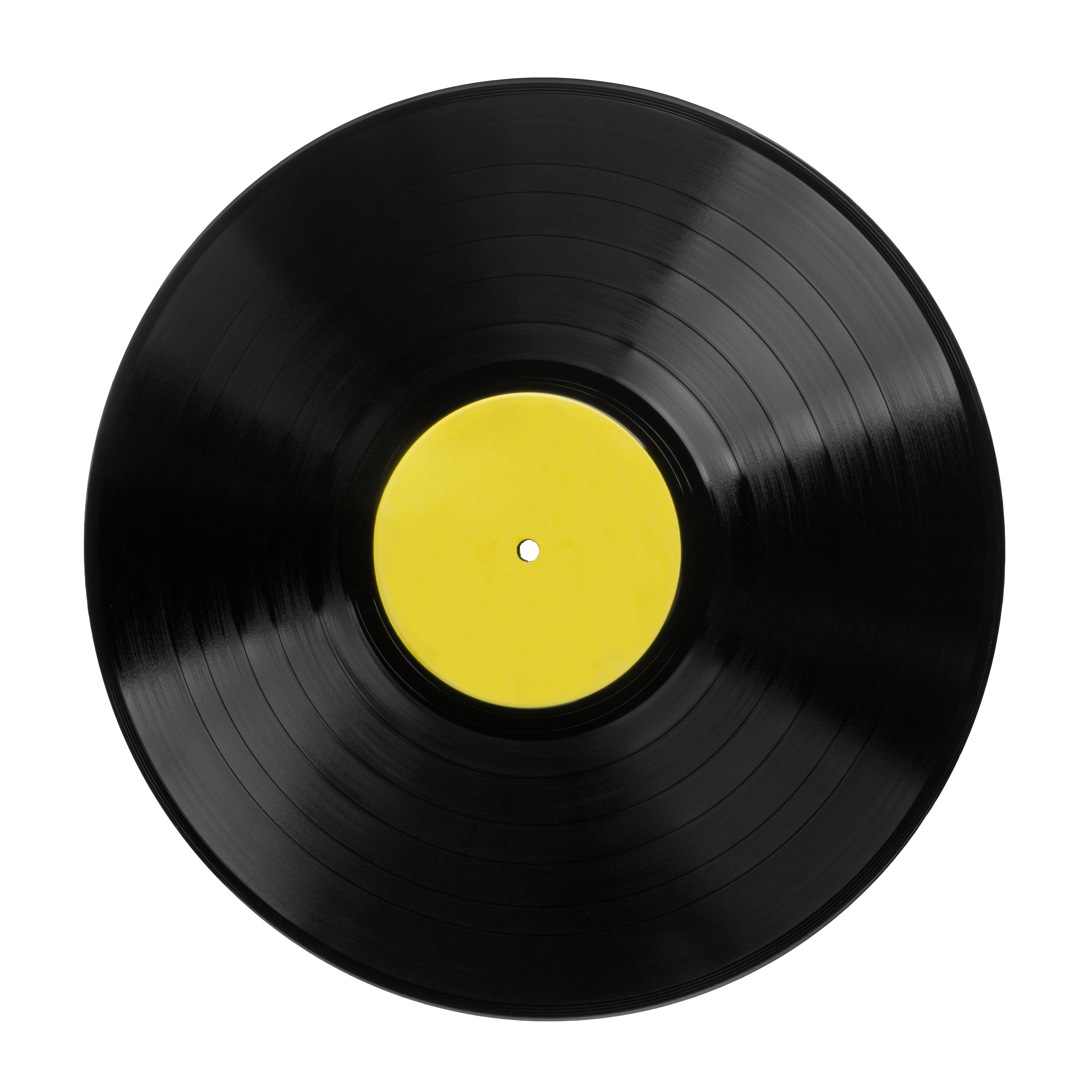 An almost-flat view of a 12 in LP vinyl record.